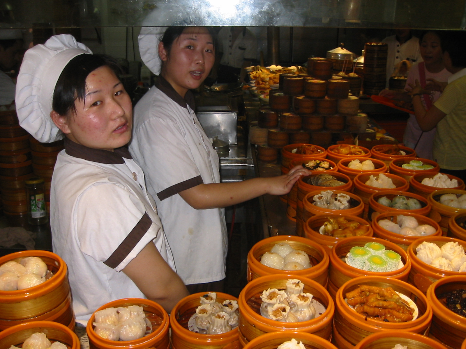 Chinese kitchen in Peking